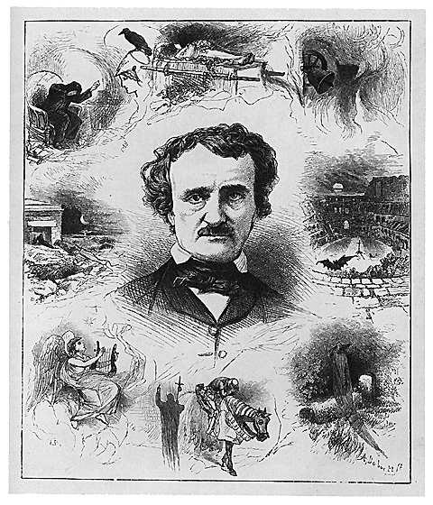 Poe portrait and motifs from his works. Wood engraving, 5 7/8 x 4 7/8 inches by Alfred Fredericks and Albert Bobbett. Boston, 1876.